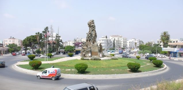 A roundabout in the modern city center of Famagusta, Northern Cyprus. The monument is the Victory Monument (Zafer Anıtı) on Polatpaşa Boulevard.